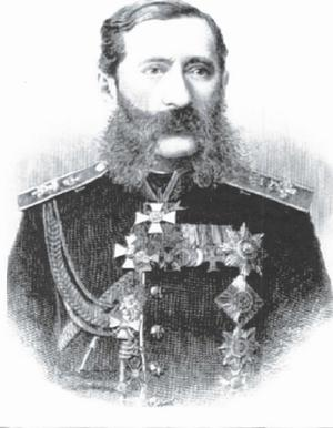 Portrait of Loris-Melikov